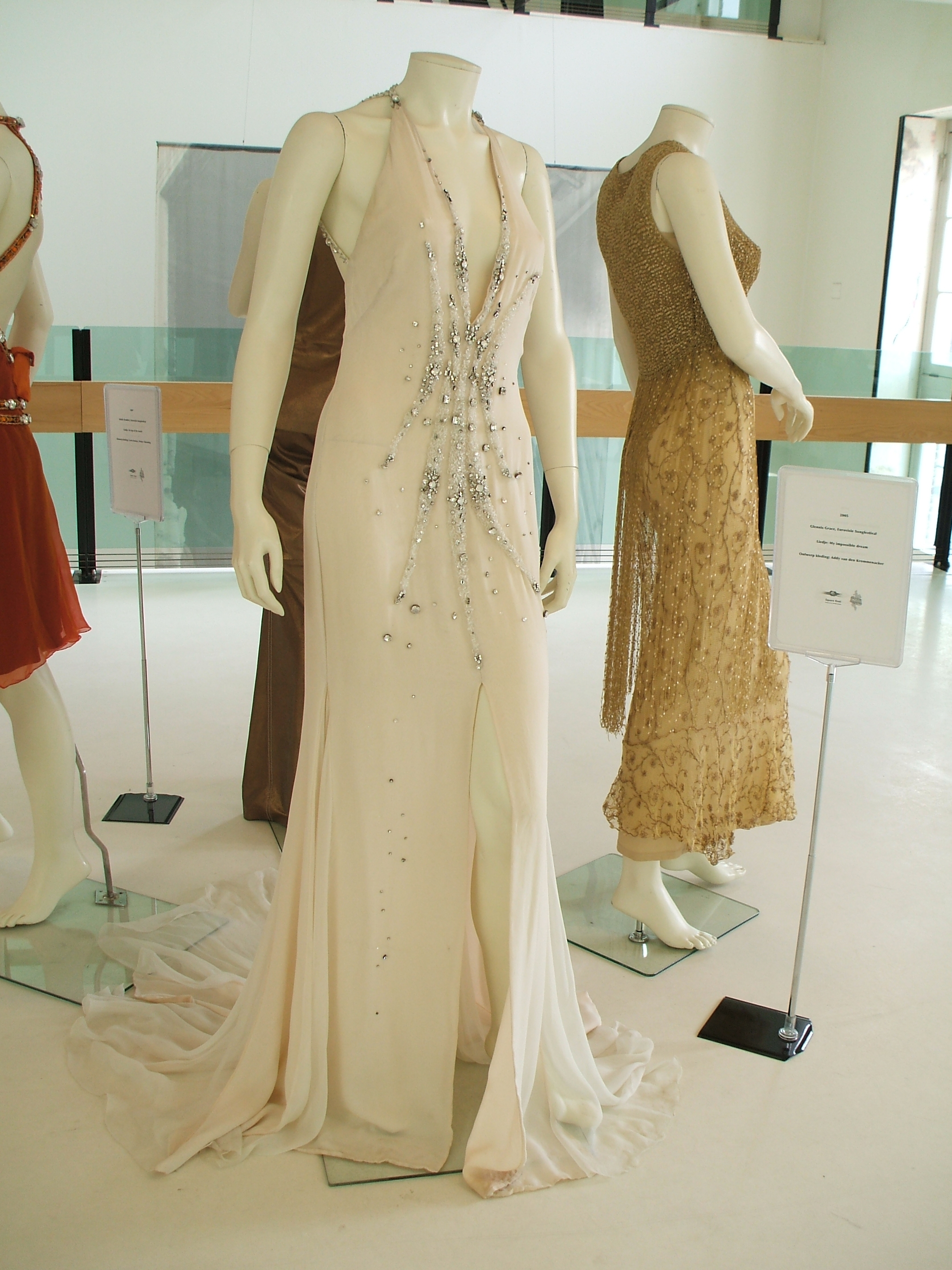 Glennis Grace's 2005 Eurovision Song Contest dress at the "May we have your dress, please?!" exposition for benefit of the Sandra Reemer Foundation